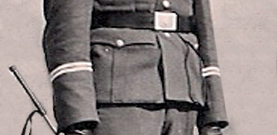 Image of SS-Stabsscharführer Insignia